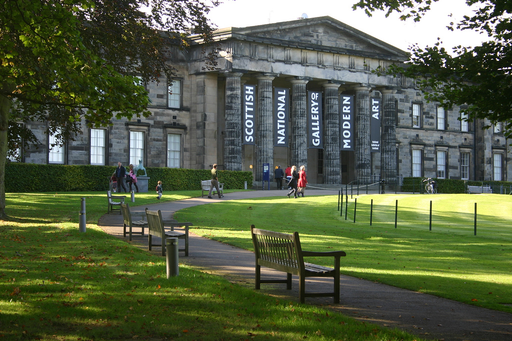 Scottish National Gallery of Modern Art. "Honestly, how can they call it that when they have no tartan or haggis on the premises? This was a lovely day but if you want to drink the latte just forget it and order the water they wash the coffee cups in. It will be hotter and have more flavour."